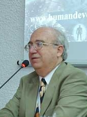 Michael Cremo during lecture in the Southwest university in Blagoevgrad, Bulgaria in 2003.